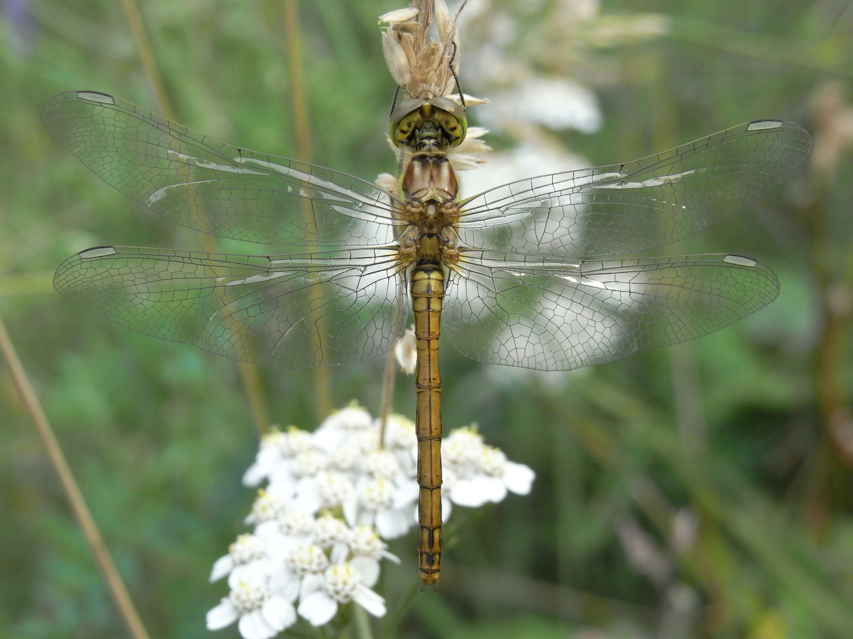 Female Vagrant Darter (Sympetrum vulgatum) near Hamburg, Germany.